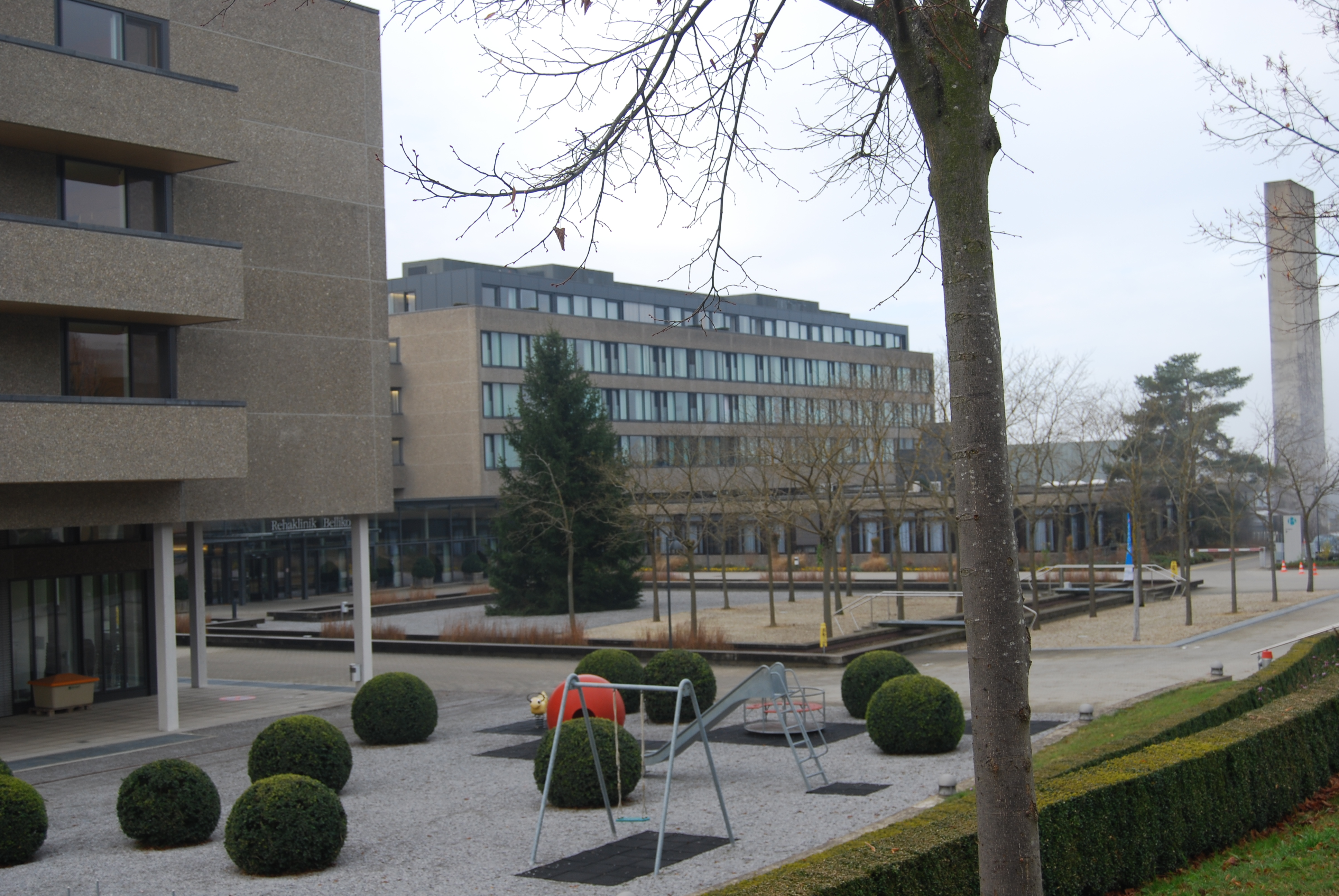 SUVA rehabilitation clinic at Bellikon, canton of Aargau, SwitzerlandEsperanto: Rehabiliga kliniko de SUVA en Bellikon, Kantono Argovio, Svislando